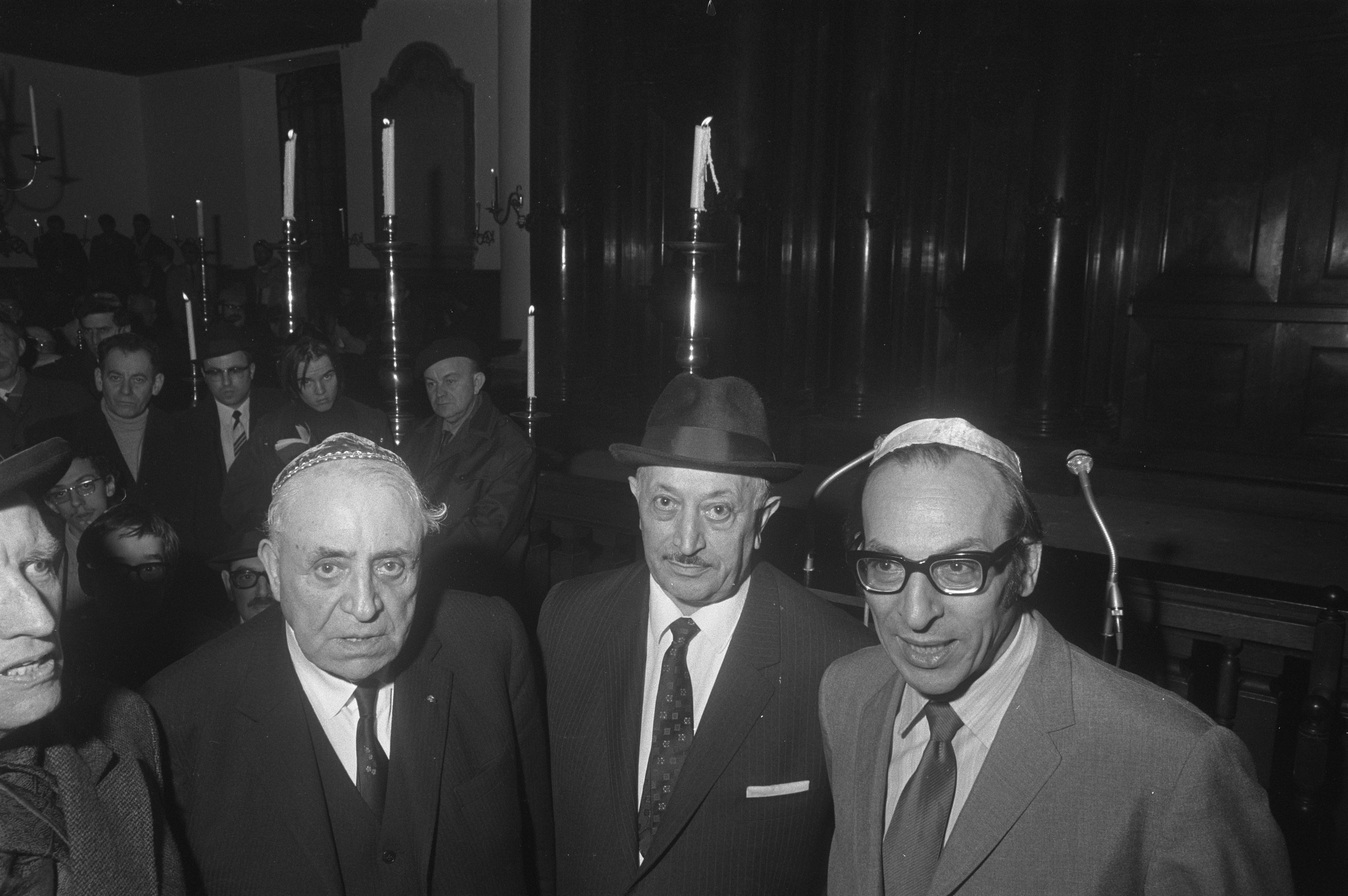 Barnett Janner (British MP), Simon Wiesenthal (Jewish human rights activist) and the British author Emanuel Litvinoff meet in the Portuguese-Israelite synagogue in Amsterdam in solidarity with Jews in Russia